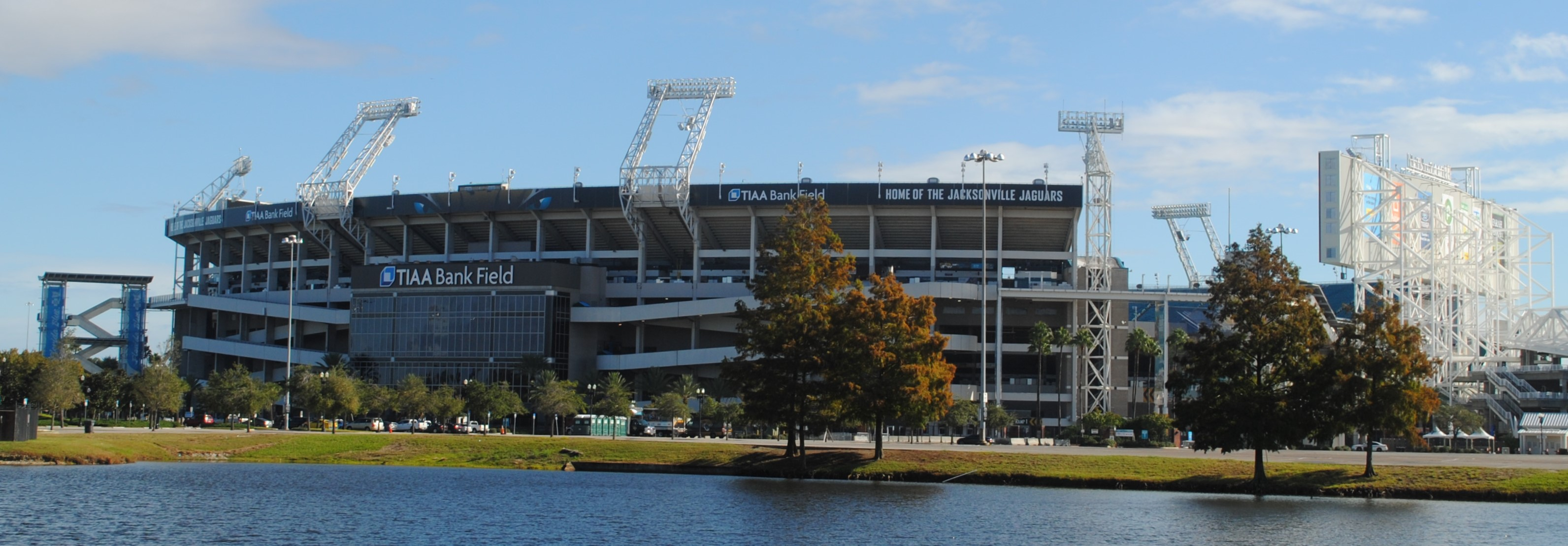 TIAA Bank Field Jacksonville, Florida